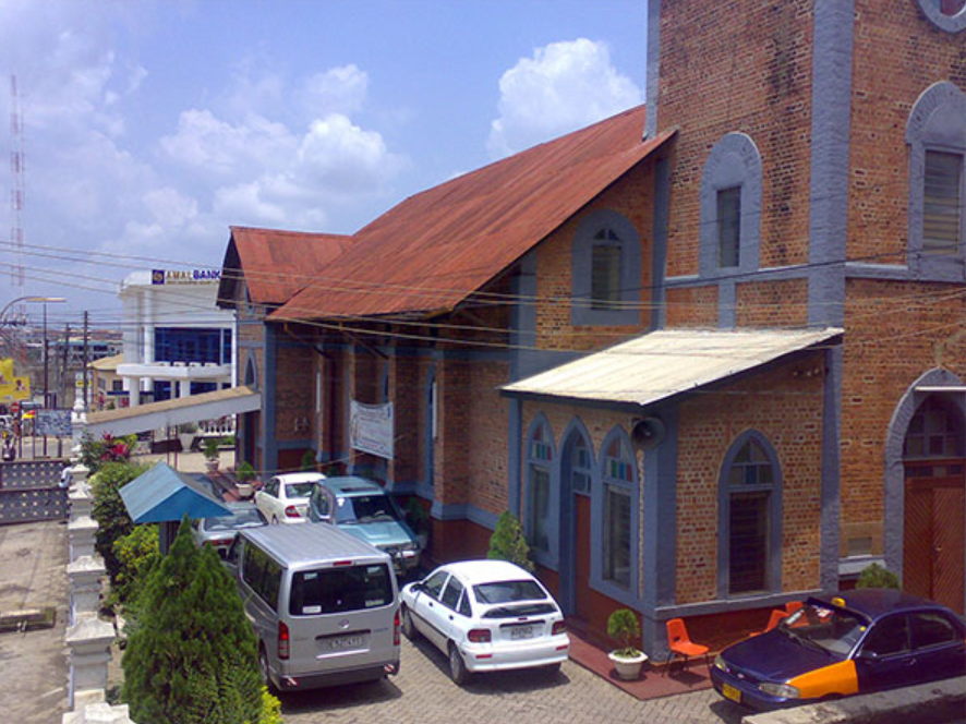 Side view of Ramseyer Presbyterian Church. I took this photo with a camera.